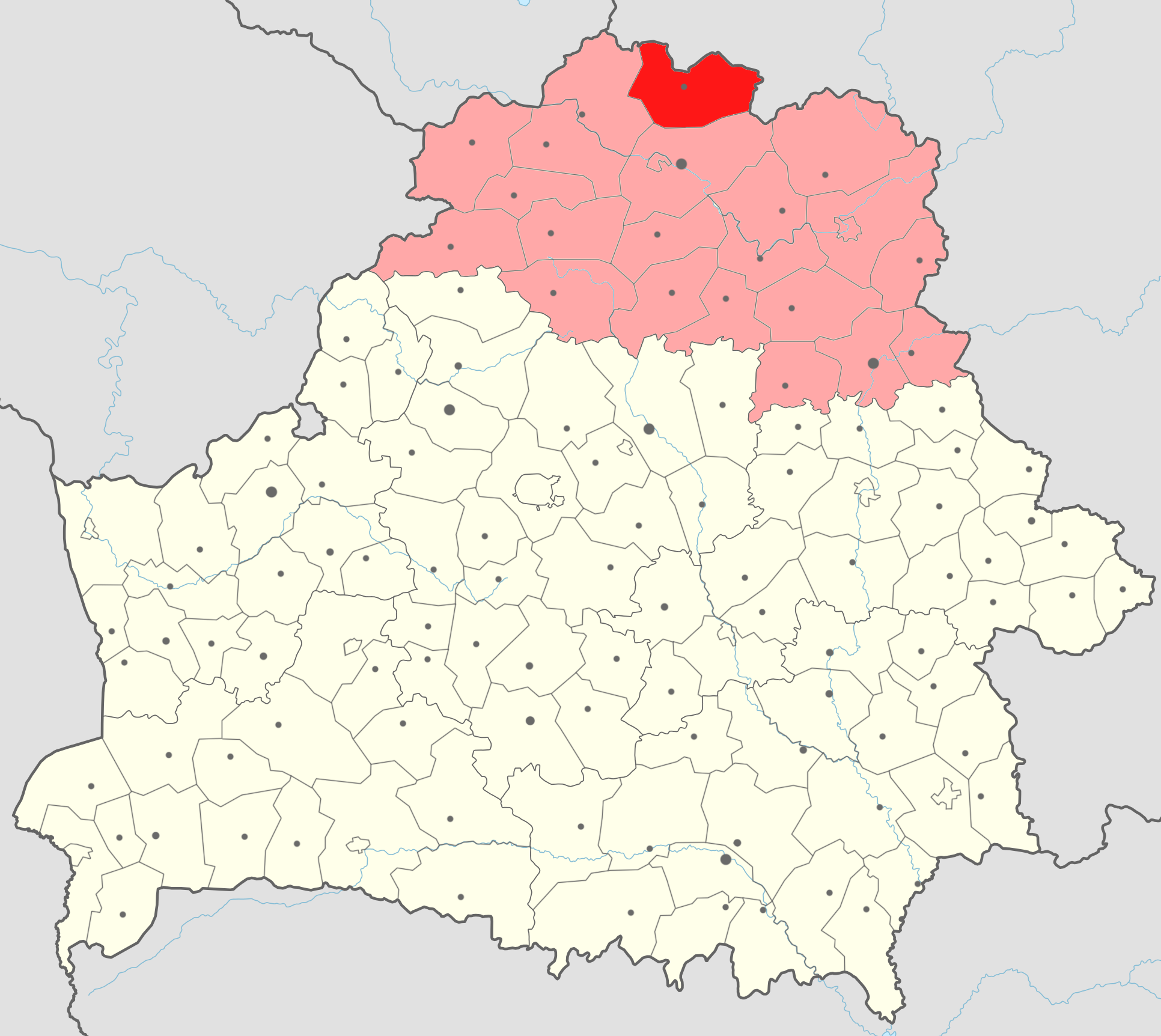 Map of Rasonski raion (in red) with Viciebskaja voblast' (in light red) on the map of Belarus.